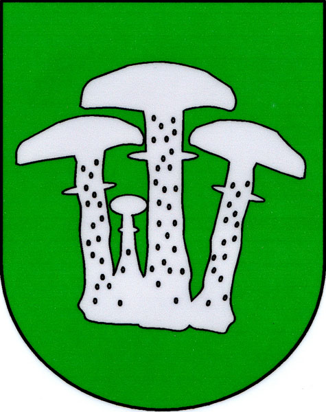 Coat of amrs of Václavy , District Rakovník, Czech Republic